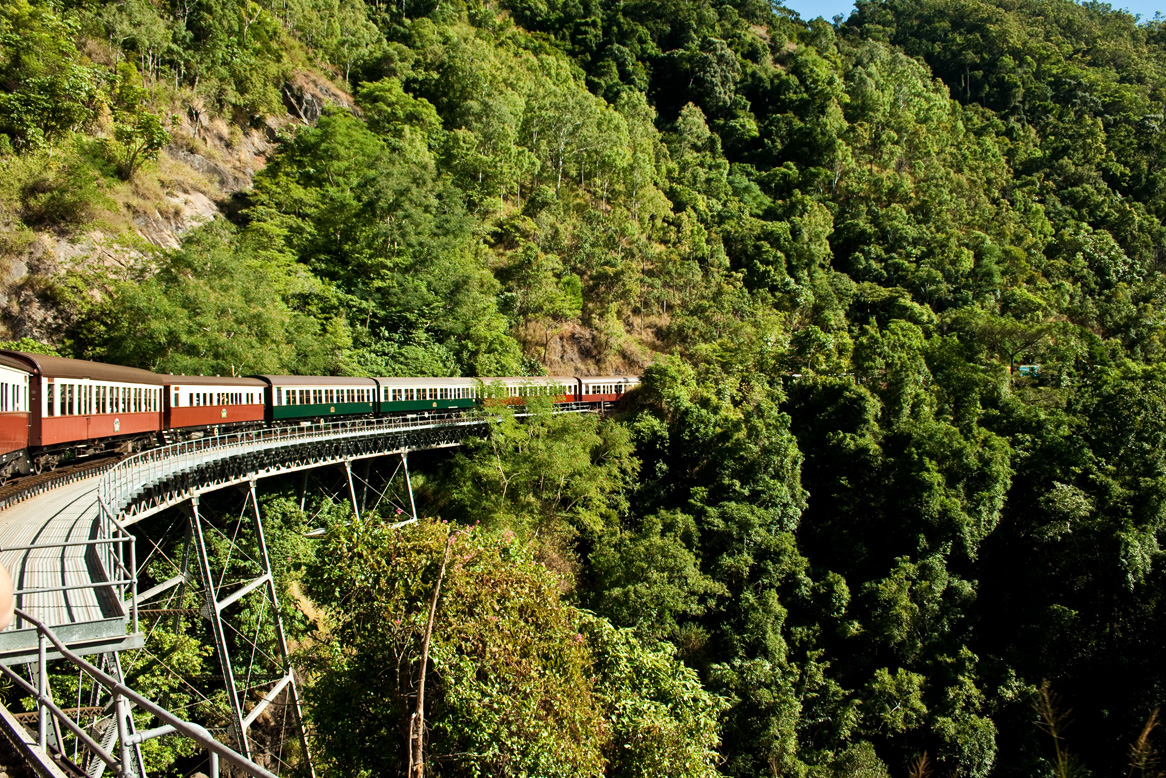 Kuranda Scenic Railway